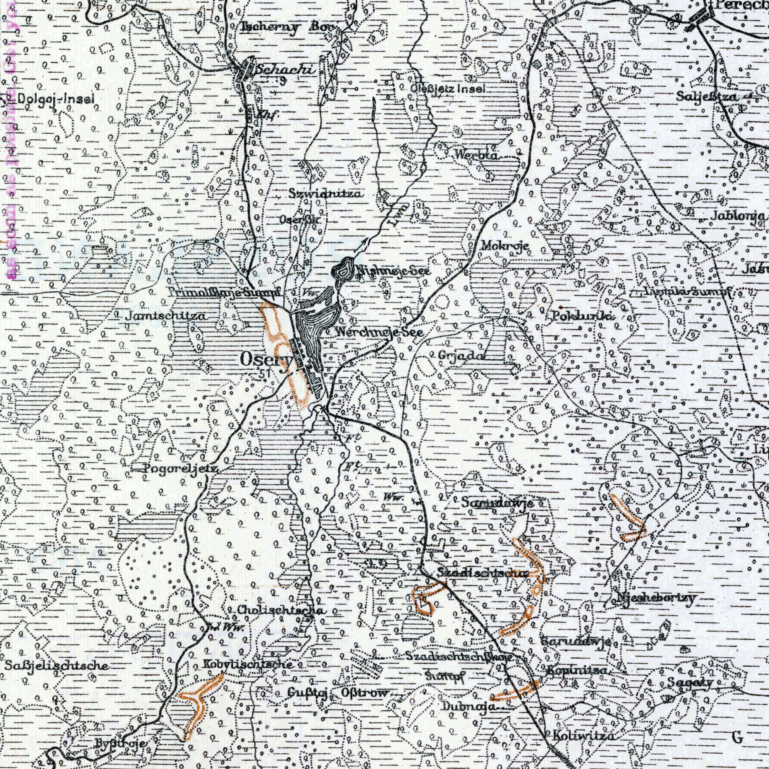 Ozery on the map "Karte des Westlichen Russlands", U 35, 1917. According to Kujawsko-Pomorska Digital Library the map is in the public domain.